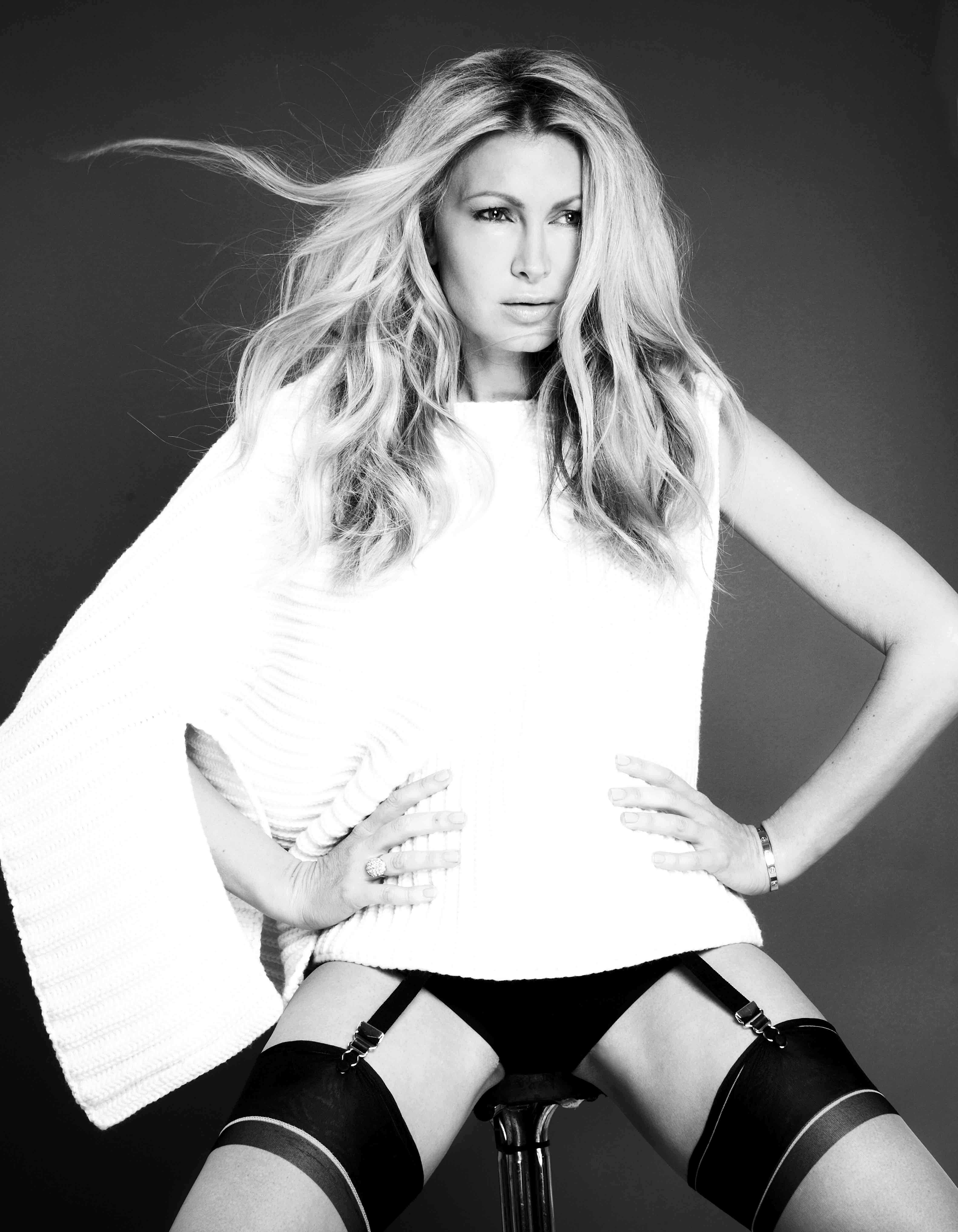 Caprice Bourret